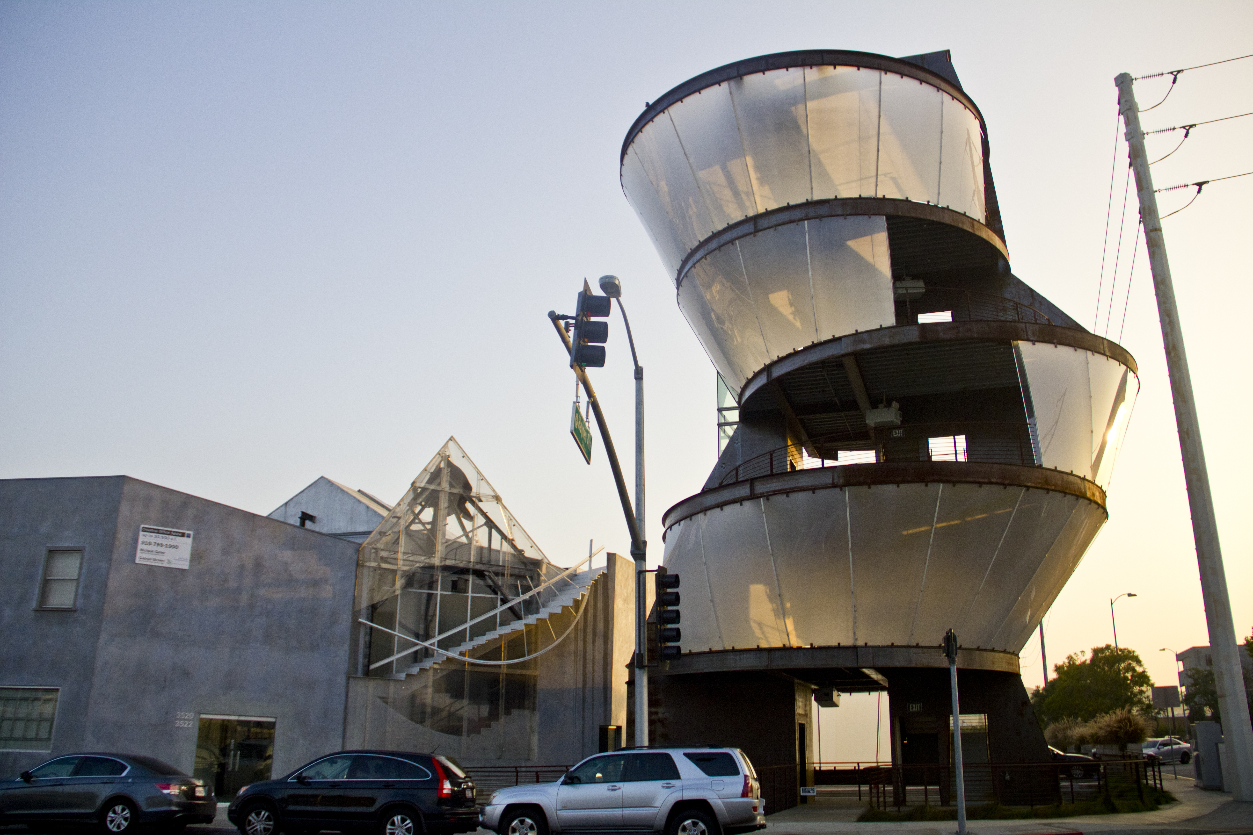 The Samitaur Tower in Culver City on December 6, 2012. (Rosa Trieu/Neon Tommy)